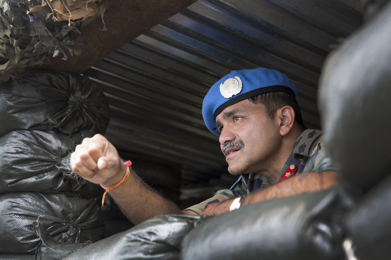 NKB commander, Brigadier General C B Ponnappa on Munigi hill , the 22nd of August 2013. © MONUSCO/Sylvain Liechti